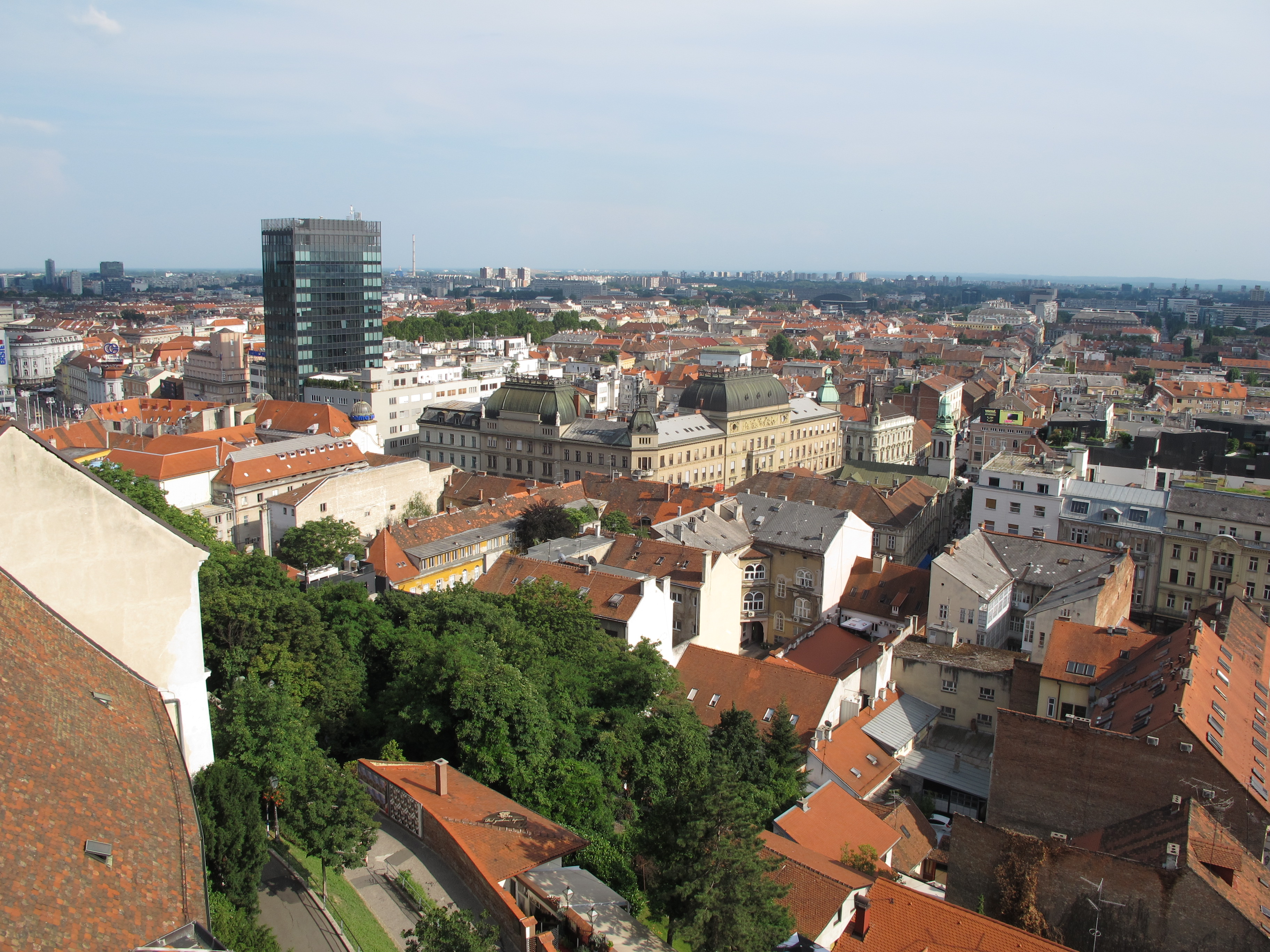 Zagreb Centrum